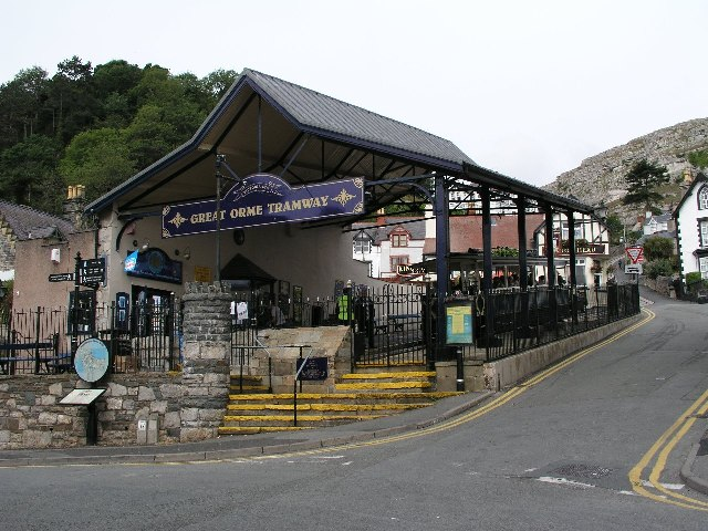 Victoria station, Great Orme Tramway.